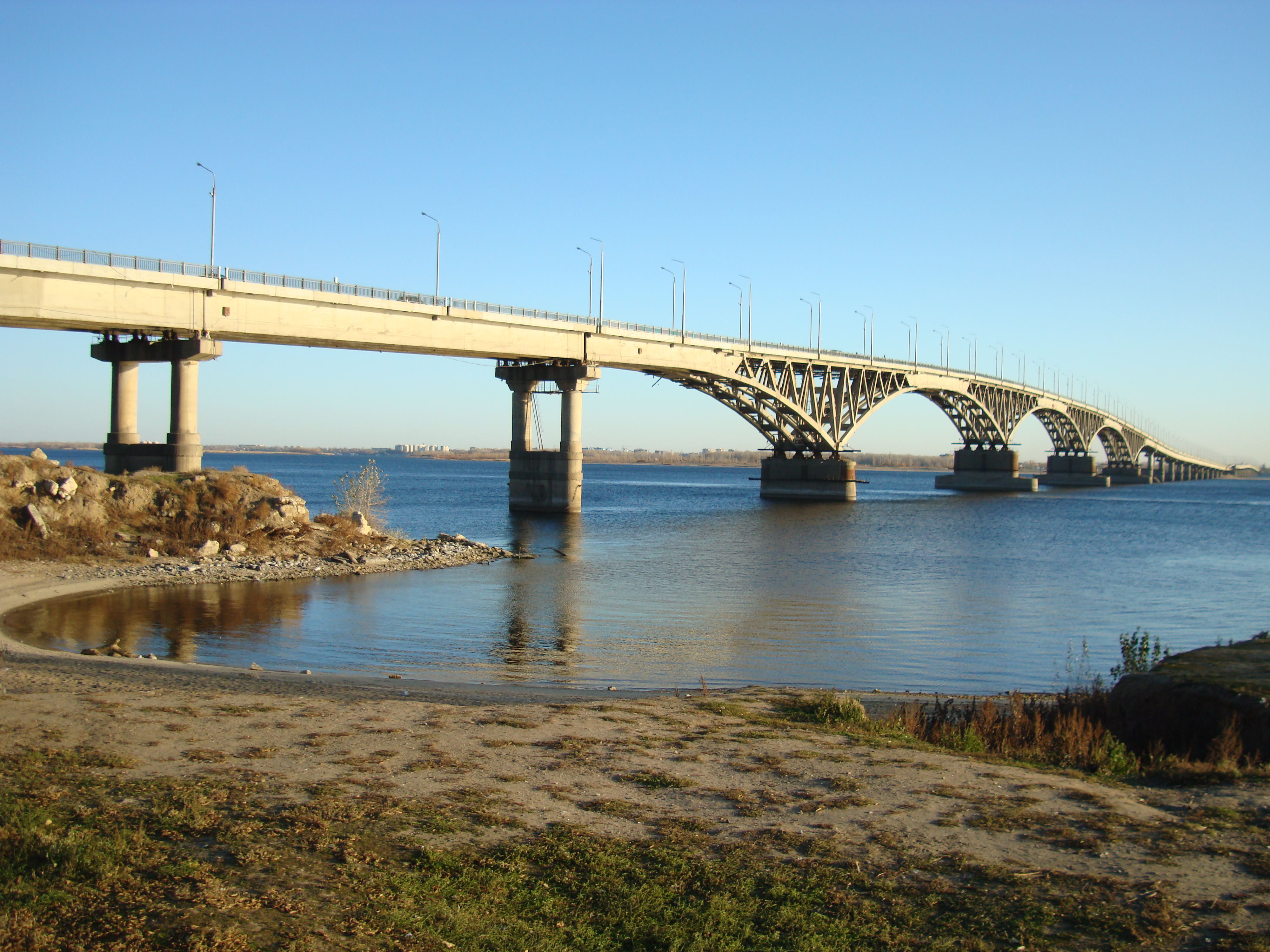 Saratov bridge, November 2011